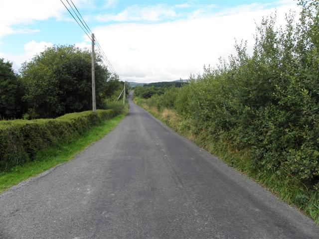 Tonlagee townland, Corlough parish, County Cavan, Republic of Ireland. Heading west.